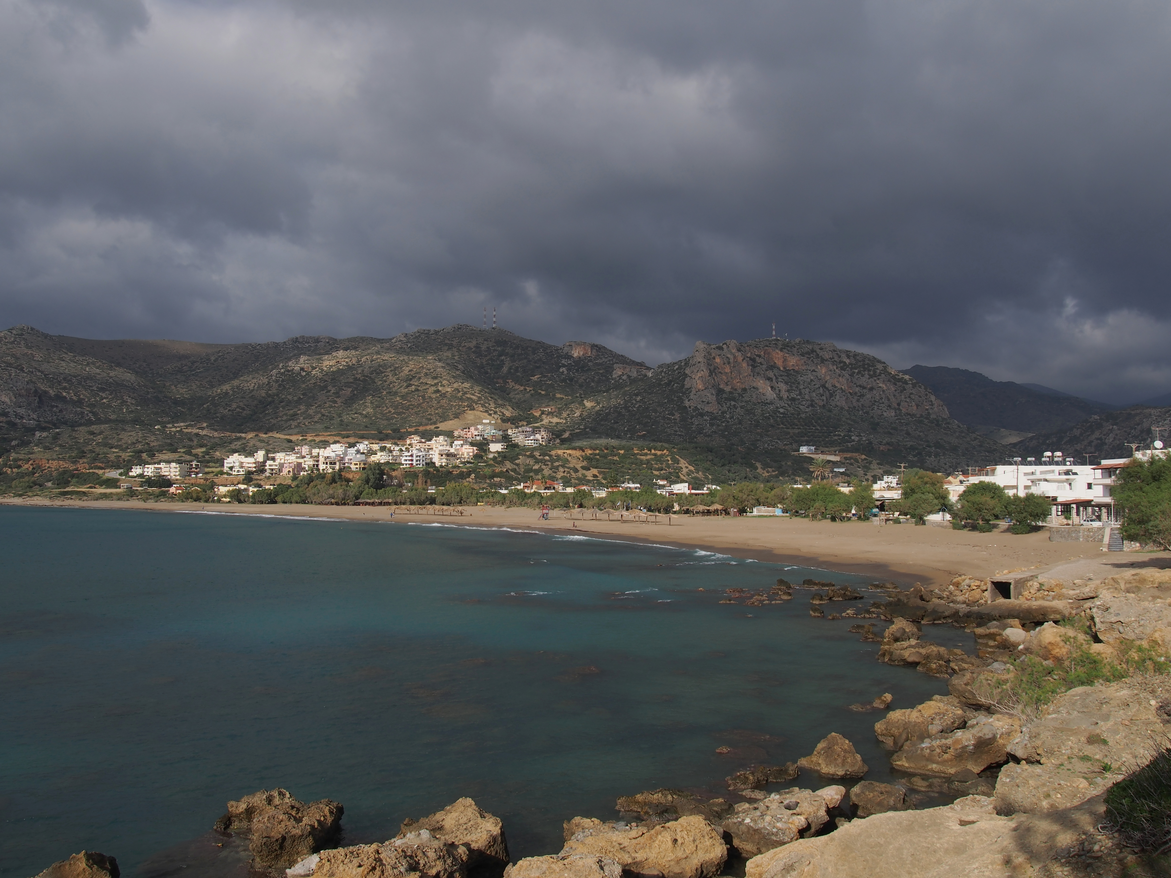 The sandy beach at the west of Palaeochora, looking from the peninsula towards north.